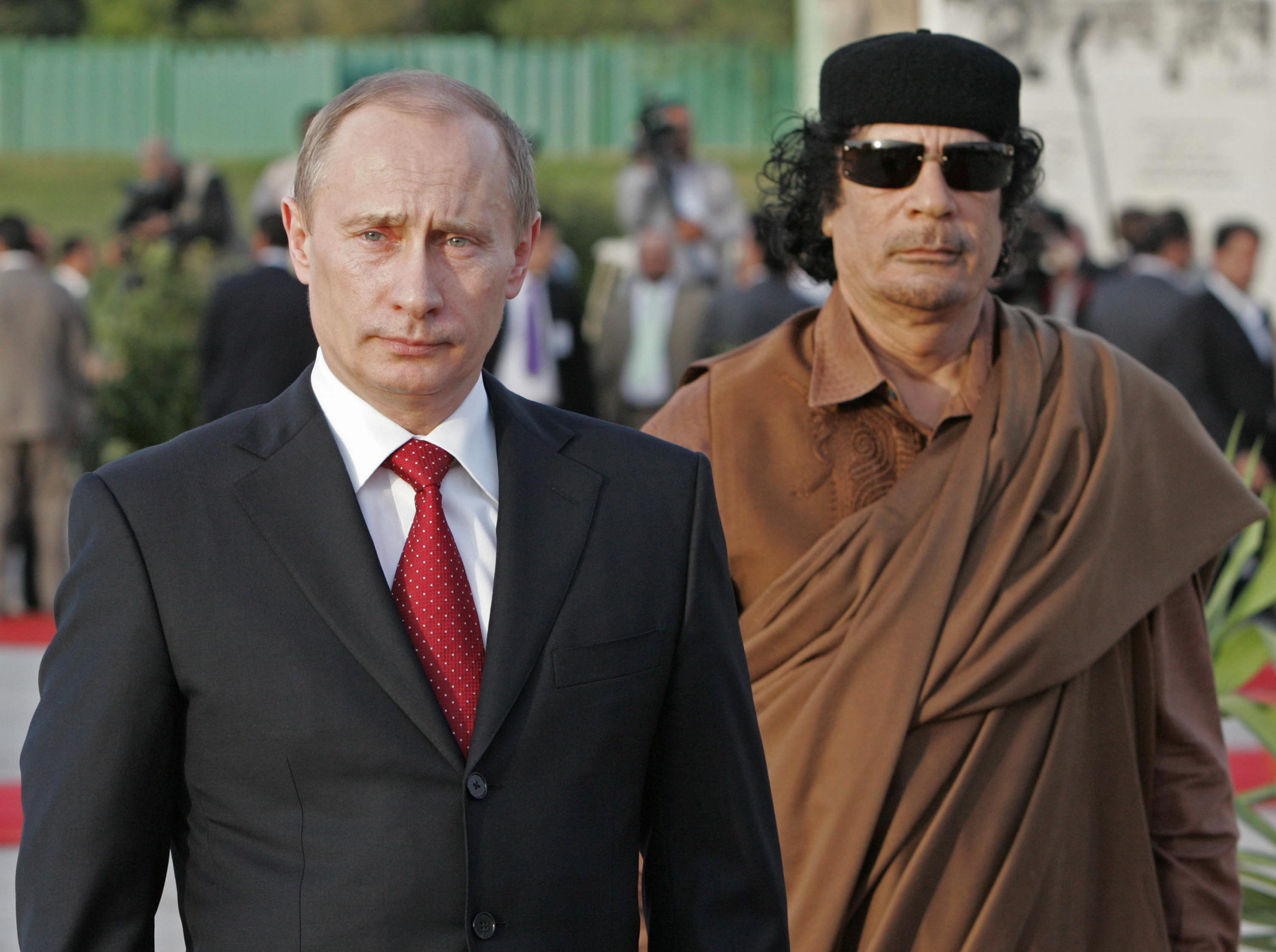 TRIPOLI. With leader of the Libyan Revolution Muammar Gaddafi.